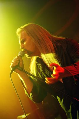 Jorn Lande (Brewhouse - Göteborg) Photo taken by: Dizzy Leijon